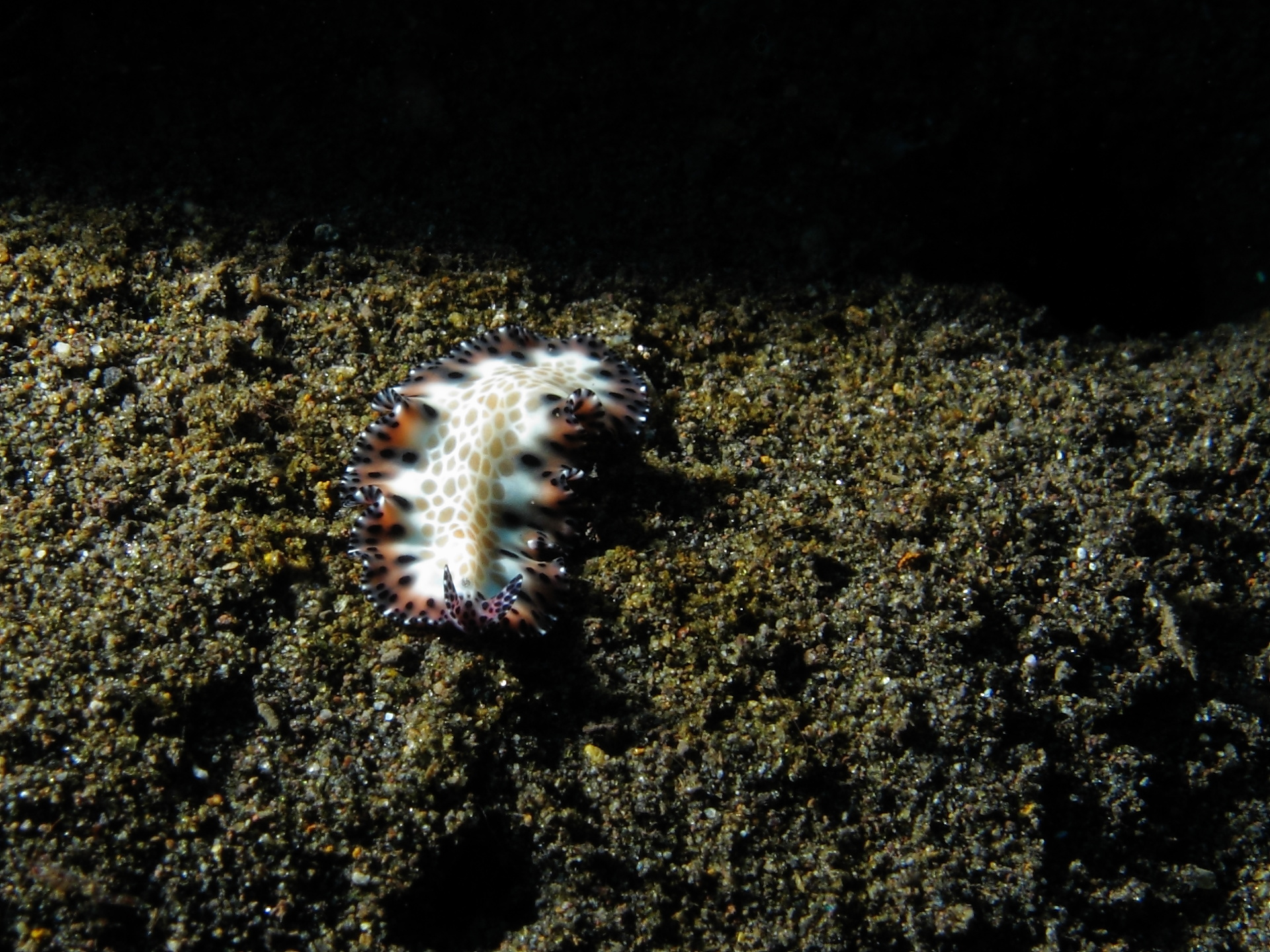 Maritigrella fuscopunctata at Sangean Island (near Komodo, Indonesia)